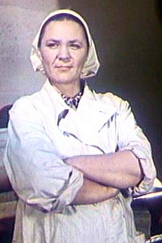 Valentina Telegina as Pasha in The Train Goes East (1947)